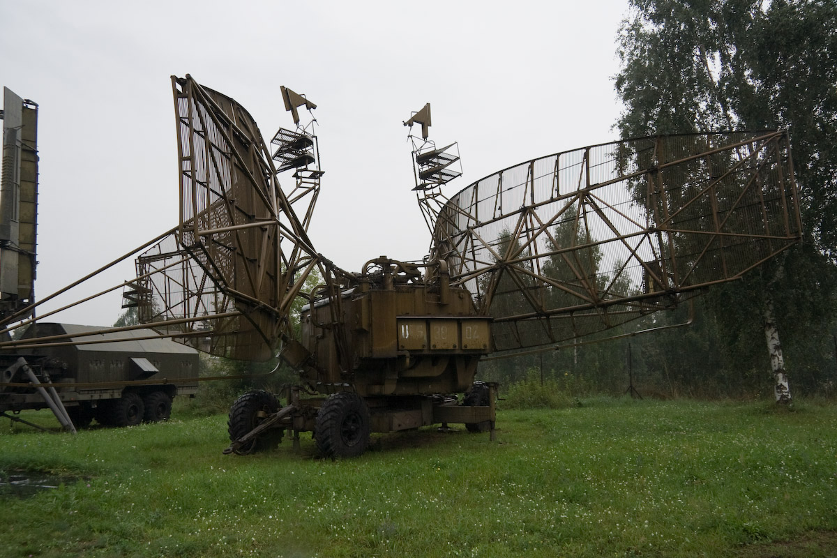 Polish Military Hardware